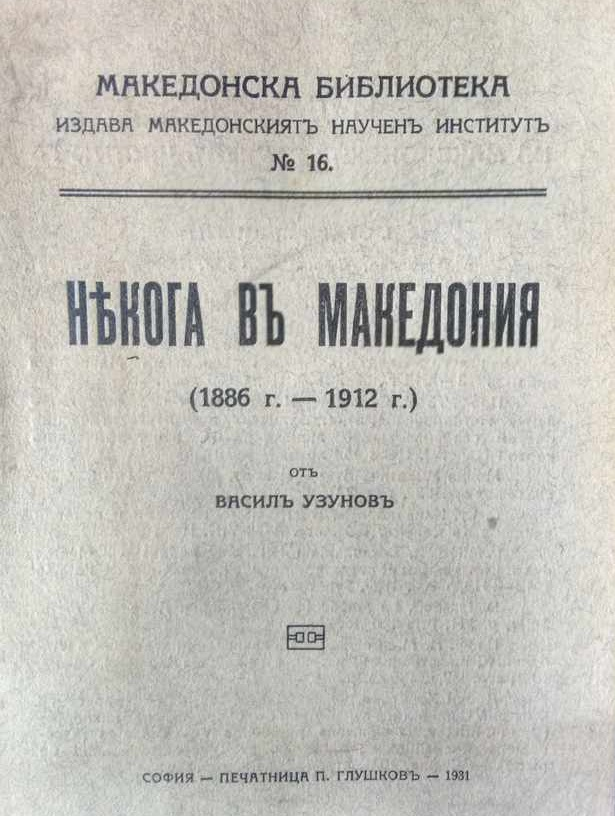 Nekoga_V_Madedonia